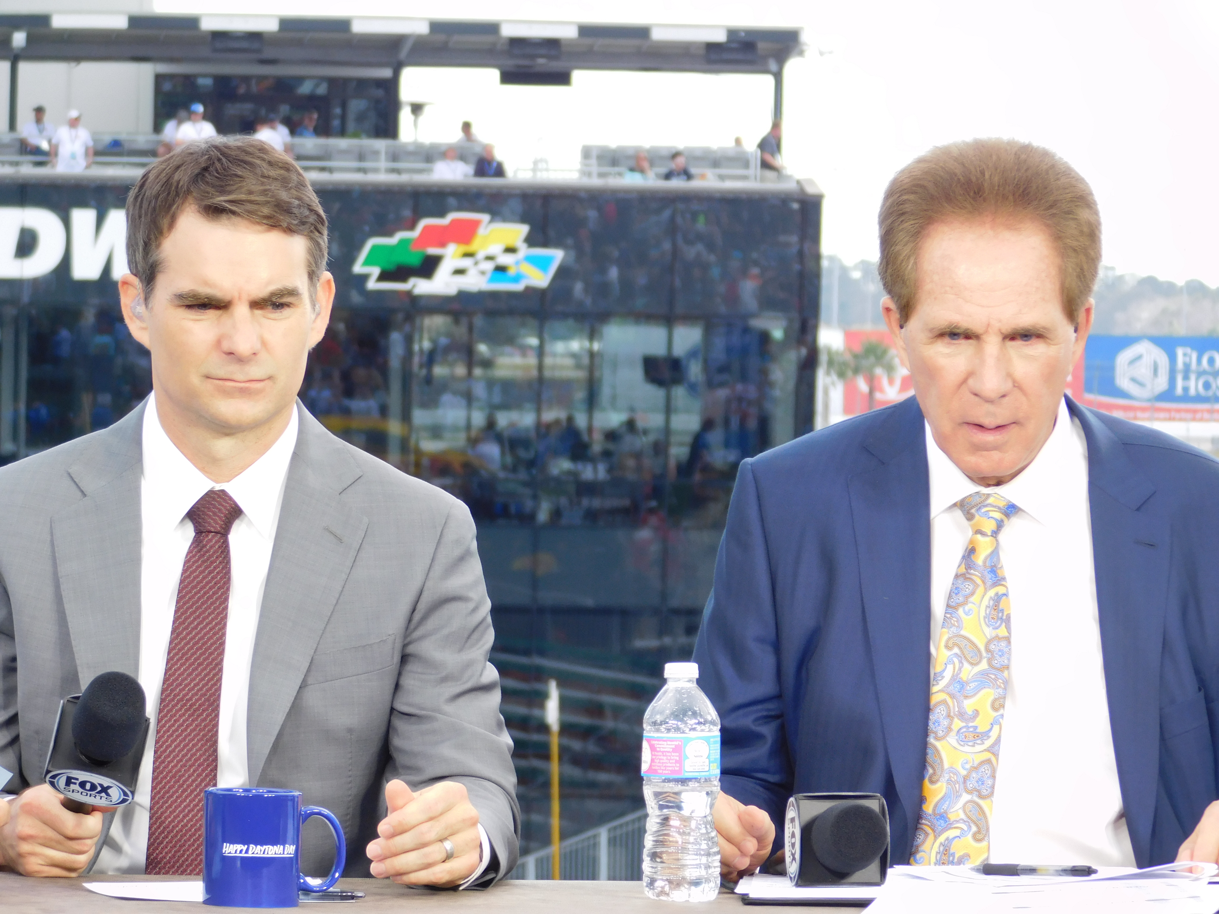 Jeff Gordon and Darrell Waltrip at Daytona International Speedway in 2016